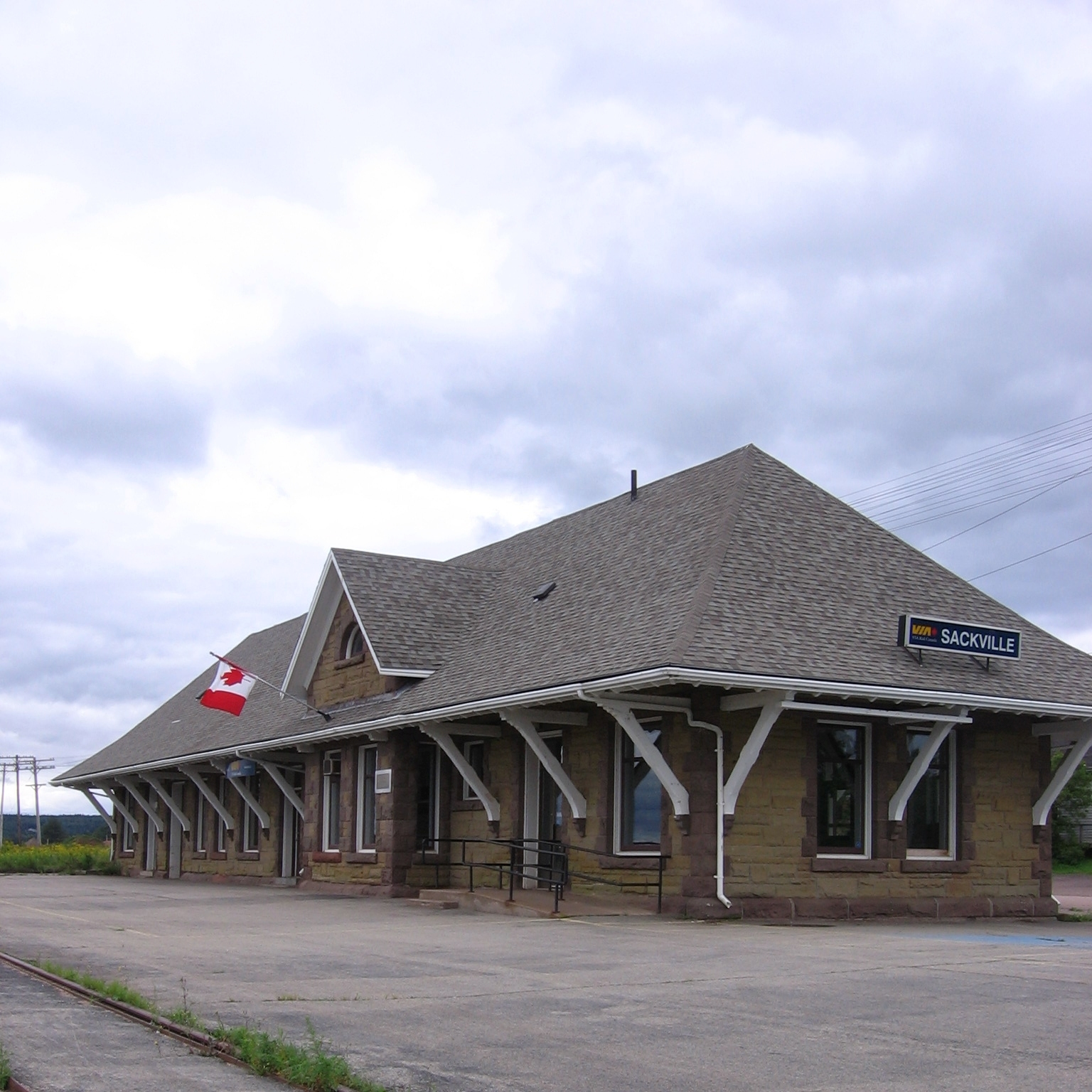 Sackville train station, New Brunswick, Canada